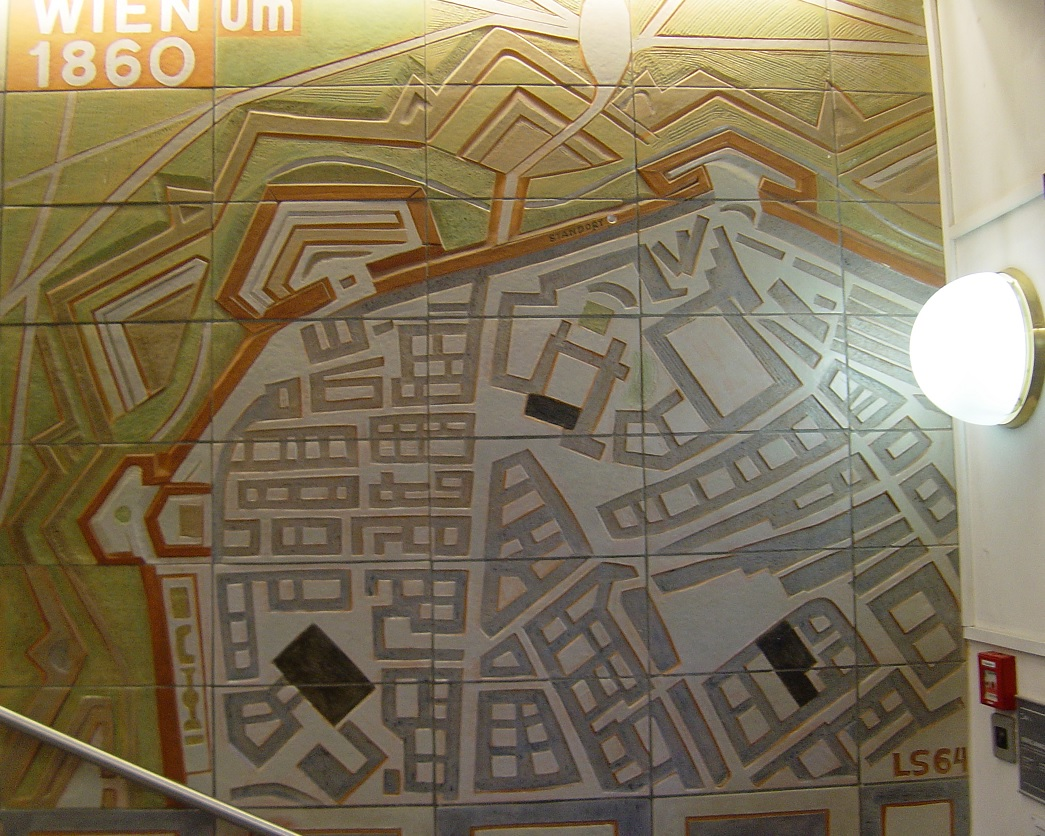 Map of the Situation 1860 of the site of Realgymnasium Schottenbastei (Vienna, Austria) in the entrance of the school